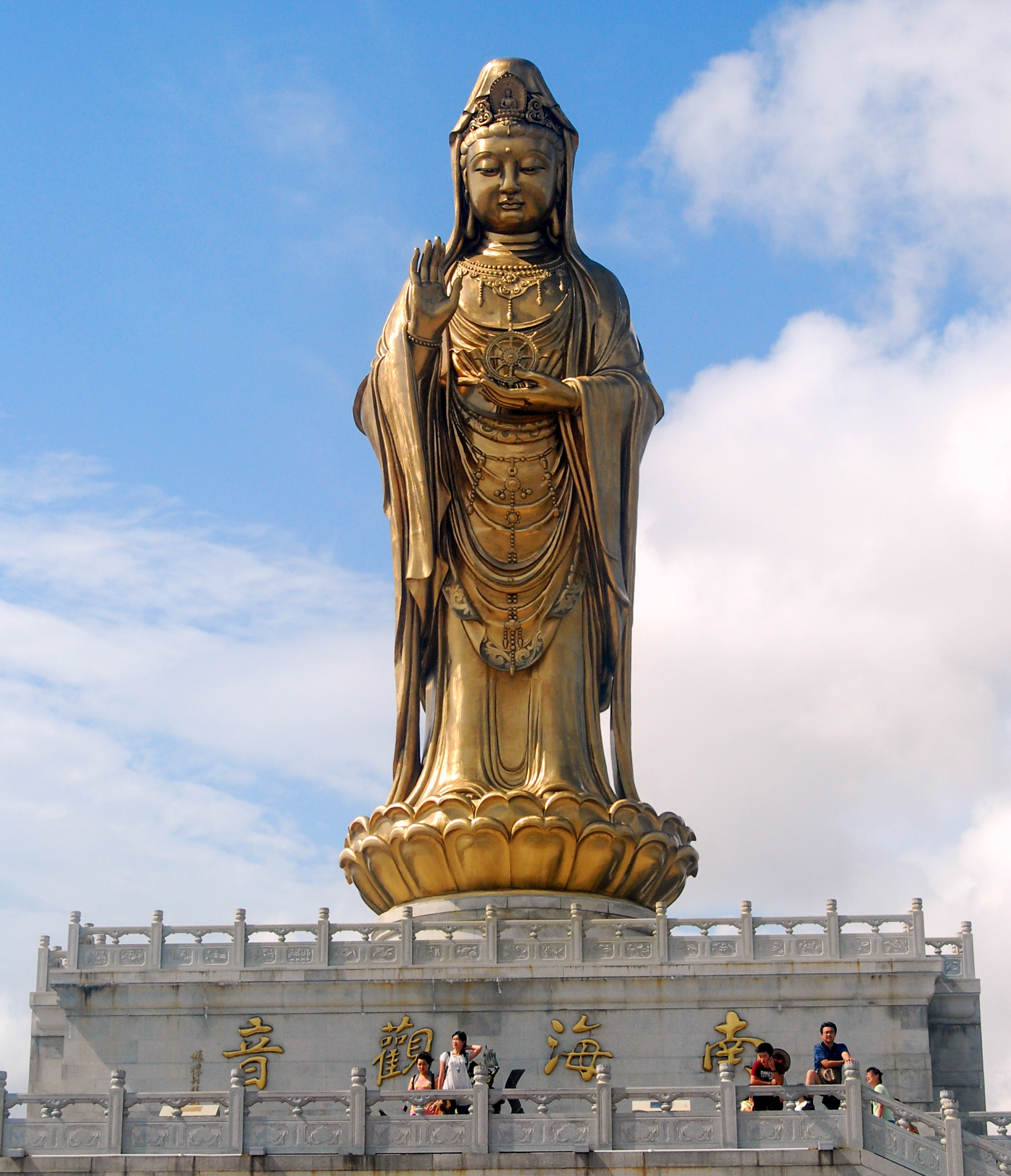 The statue of Guanyin of the South China Sea on Putuoshan Island, Zhejiang. 中文（中国大陆）: 普陀山南海观音像